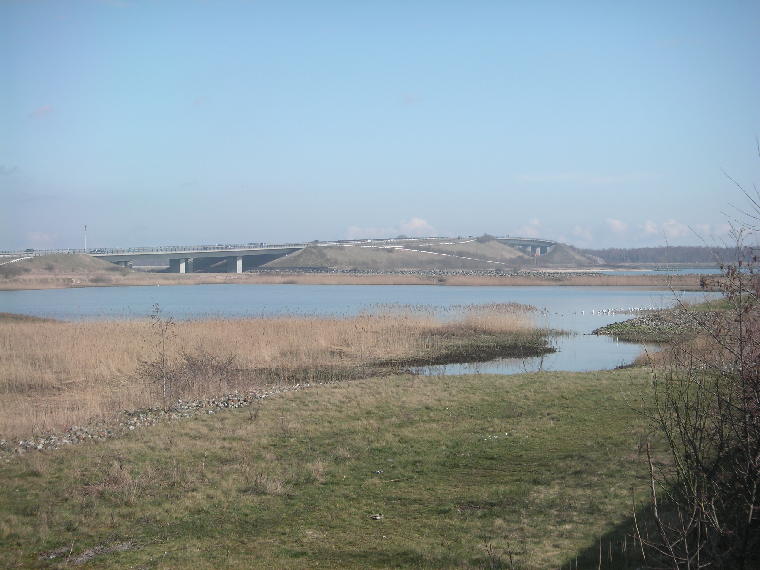 Kalvebodbroerne connects Sjælland and Amager outside Copenhagen, Denmark.